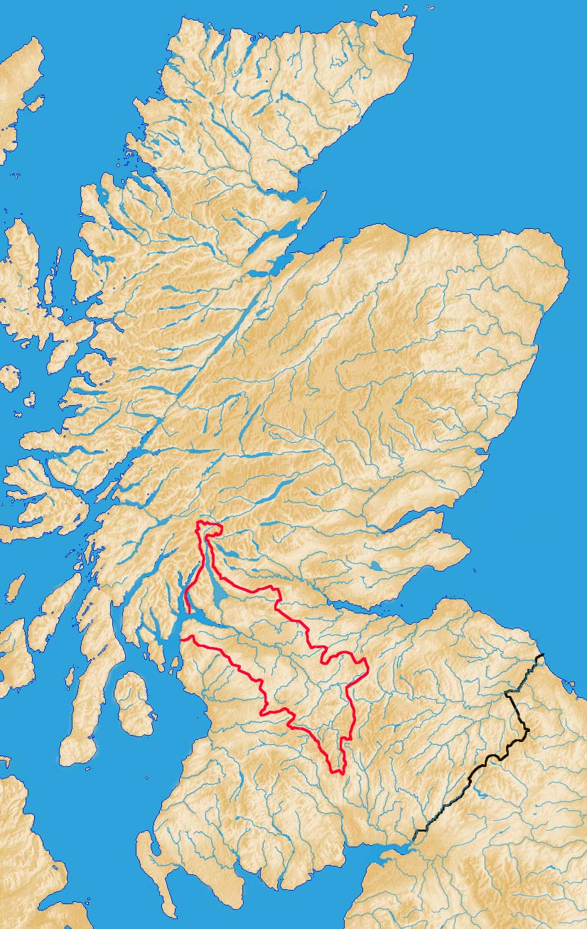 River Clyde catchment within Scotland